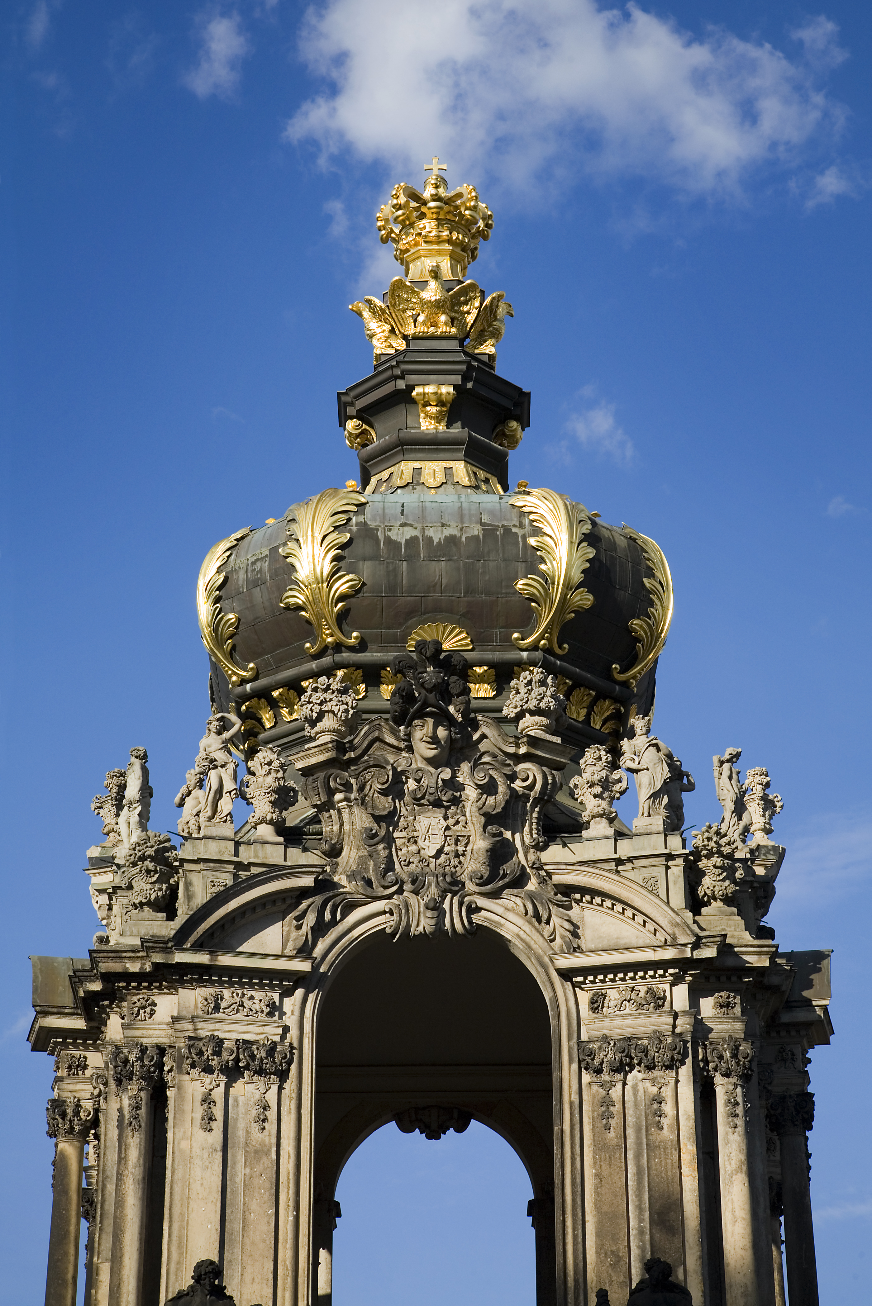 Kronentor or Crown Gate, Zwinger, Dresden, Germany